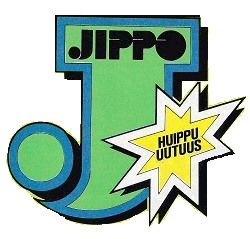 Logo of Kids' magazine Jippo, variant of French Pif